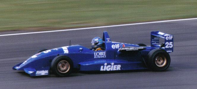 Jérémie Dufour driving for the Ligier Junior Team at Silverstone during the 1995 British Formula Three Championship season.